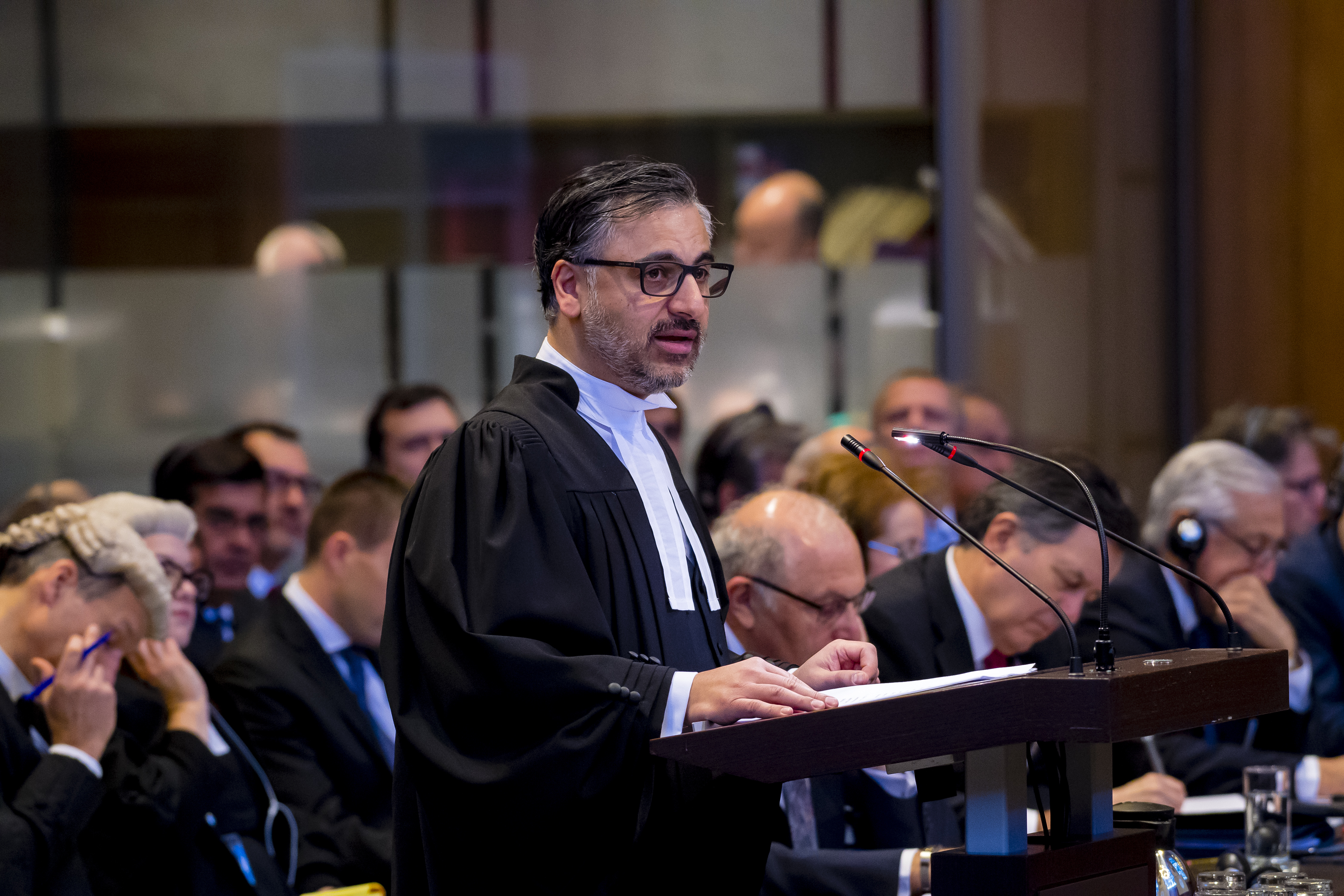 Payam Akhavan in 2018 at the International Court of Justice